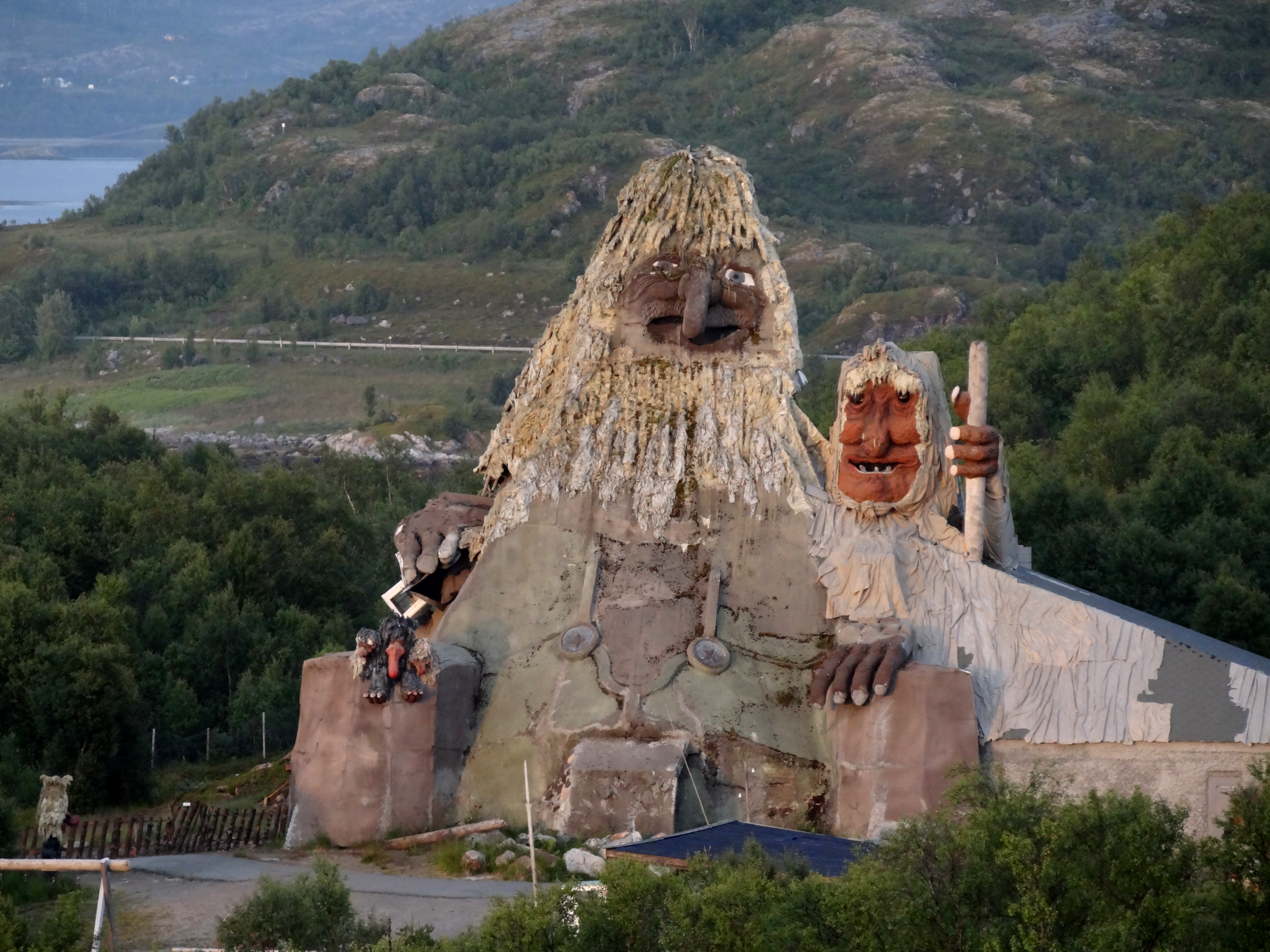 The main characters at the Senjatrollet "theme park" on Senja island, Norway.